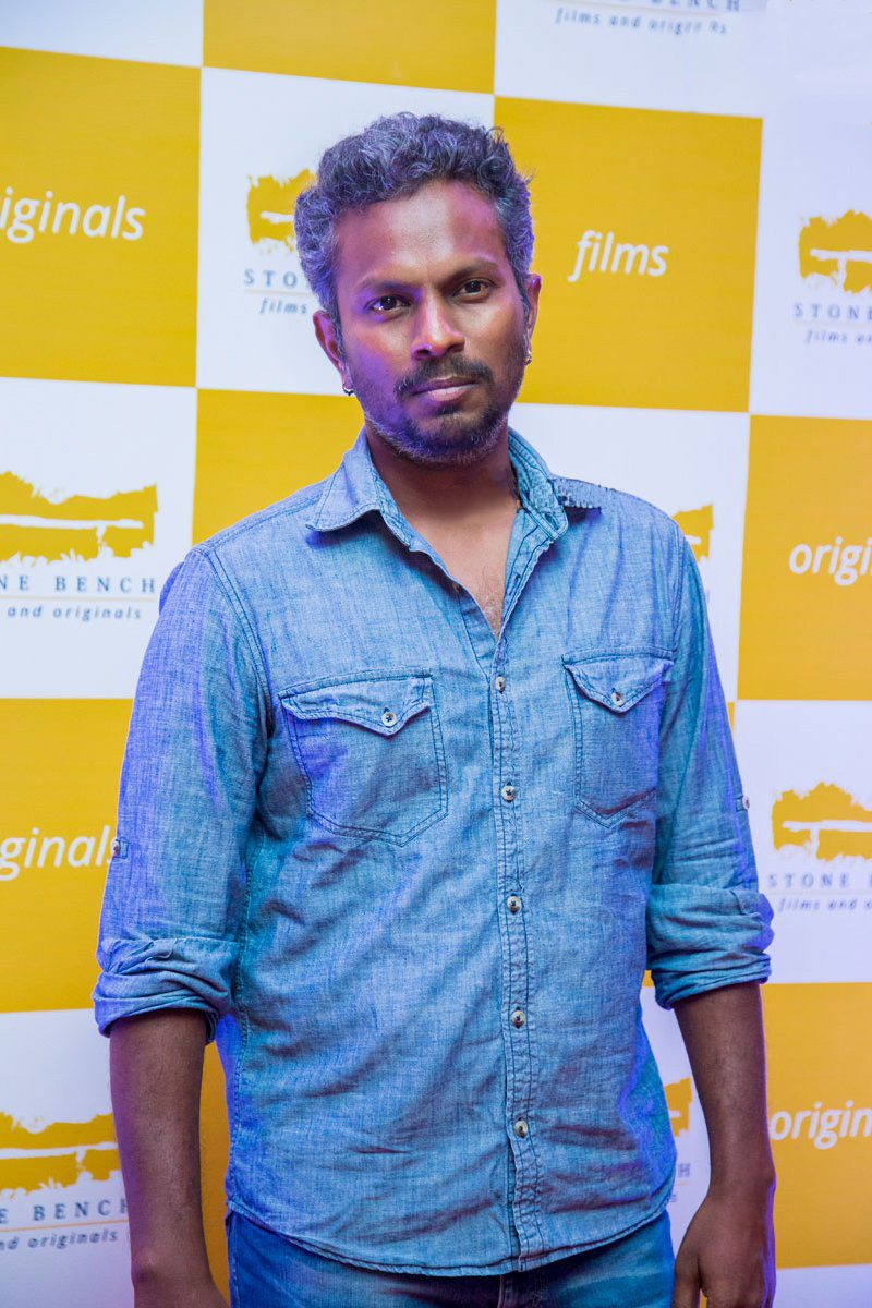 Thiagarajan Kumararaja at Launch of Stone Bench Films and Originals